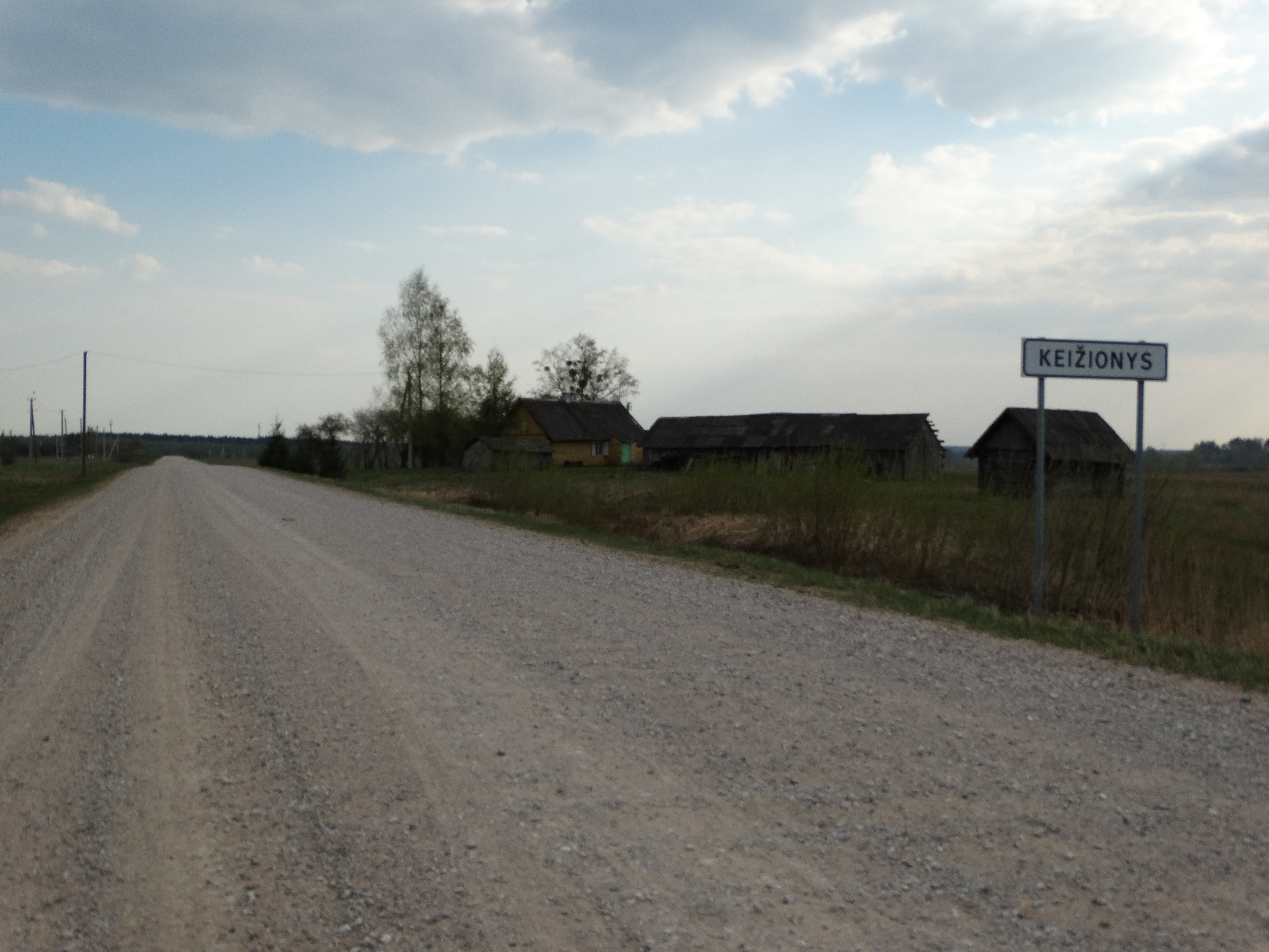 Keižonys, Jonava district, Lithuania